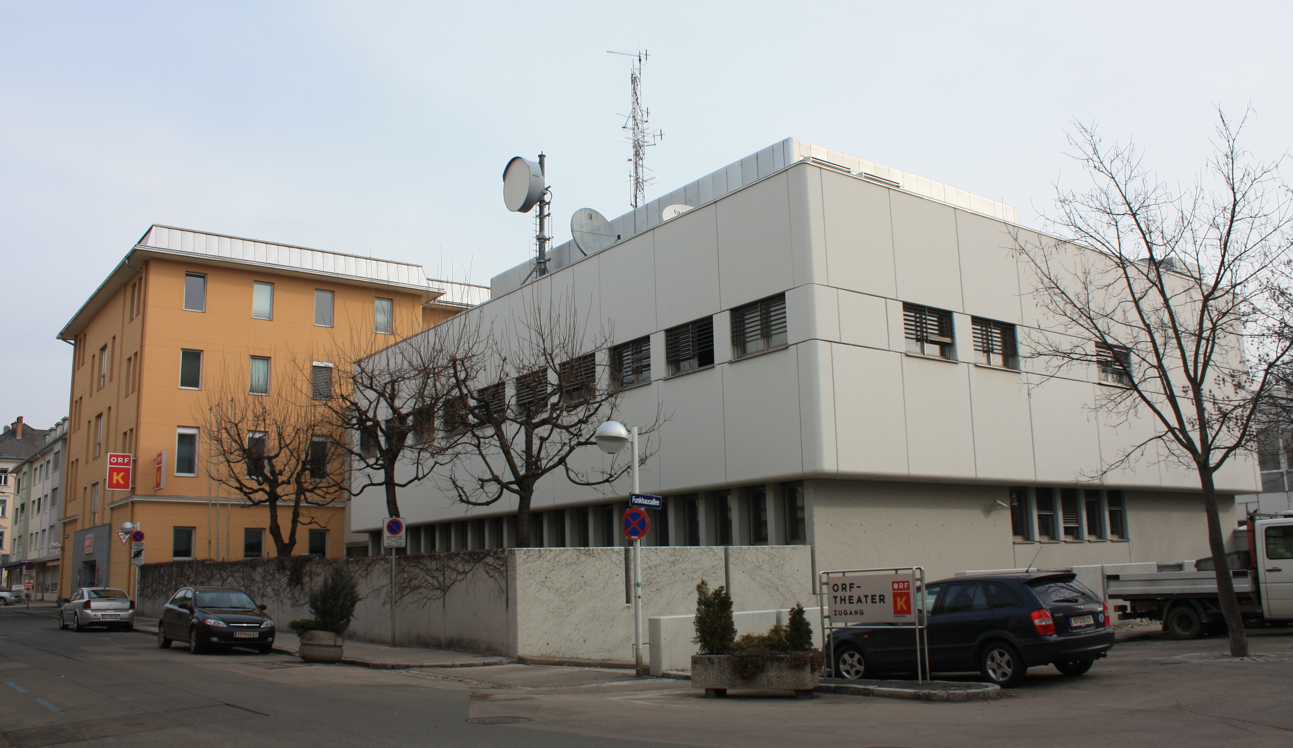 ORF in Klagenfurt